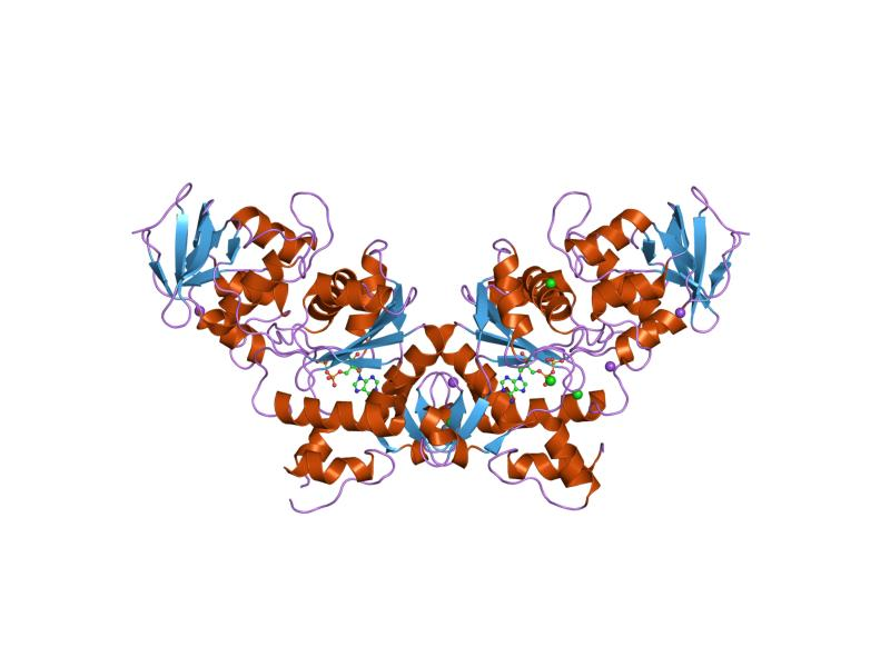 Cartoon representation of the molecular structure of protein registered with 1v47 code.